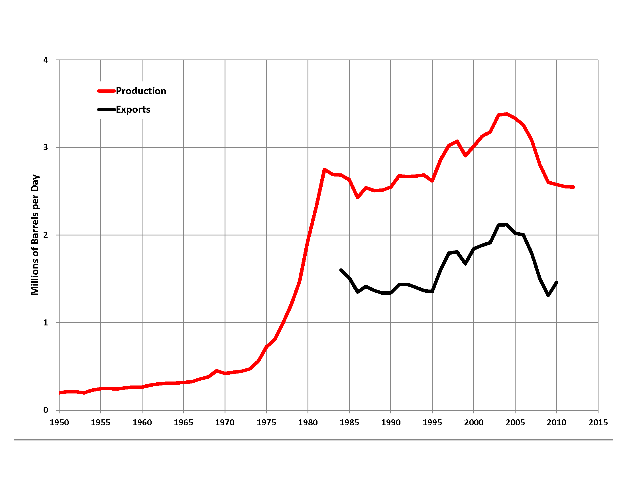 Oil production in Mexico, 1580-2012